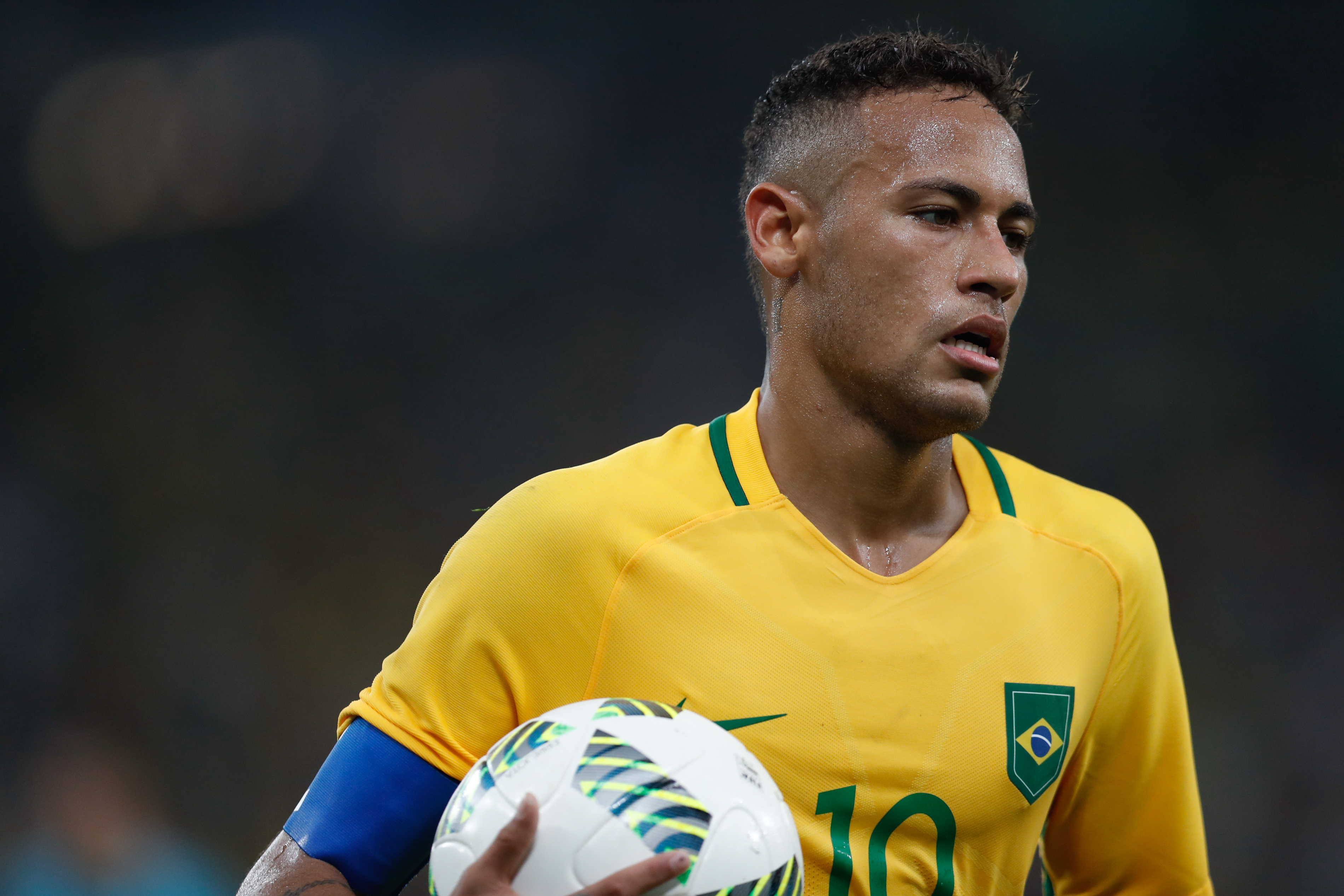 Rio de Janeiro - A seleção brasileira de futebol enfrenta a Alemanha, no Maracanã, em busca da medalha de ouro nas Olimpíadas Rio 2016 (Fernando Frazão/Agência Brasil)